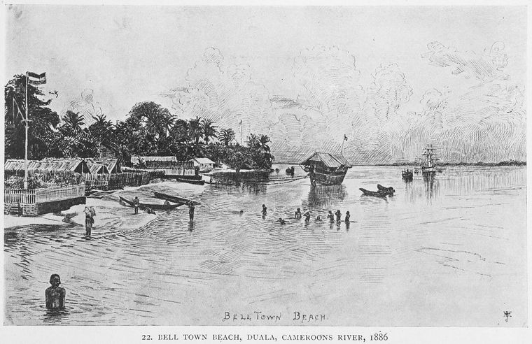 Bell Town beach, Duala, Cameroons River, 1886. From George Grenfell and the Congo; a history and description of the Congo Independent State and adjoining districts of Congoland, together with some account of the native peoples and their languages, the fauna and flora; and similar notes on the Cameroons and the island of Fernando Po, the whole founded on the diaries and researches of the late Rev. George Grenfell, B.M.S., F.R.G.S.; and on the records of the British Baptist Missionary Society; and on additional information contributed by the author, by the Rev. Lawson Forfeitt, Mr. Emil Torday, and others, by Sir Harry Johnston, Volume I (published 1908).